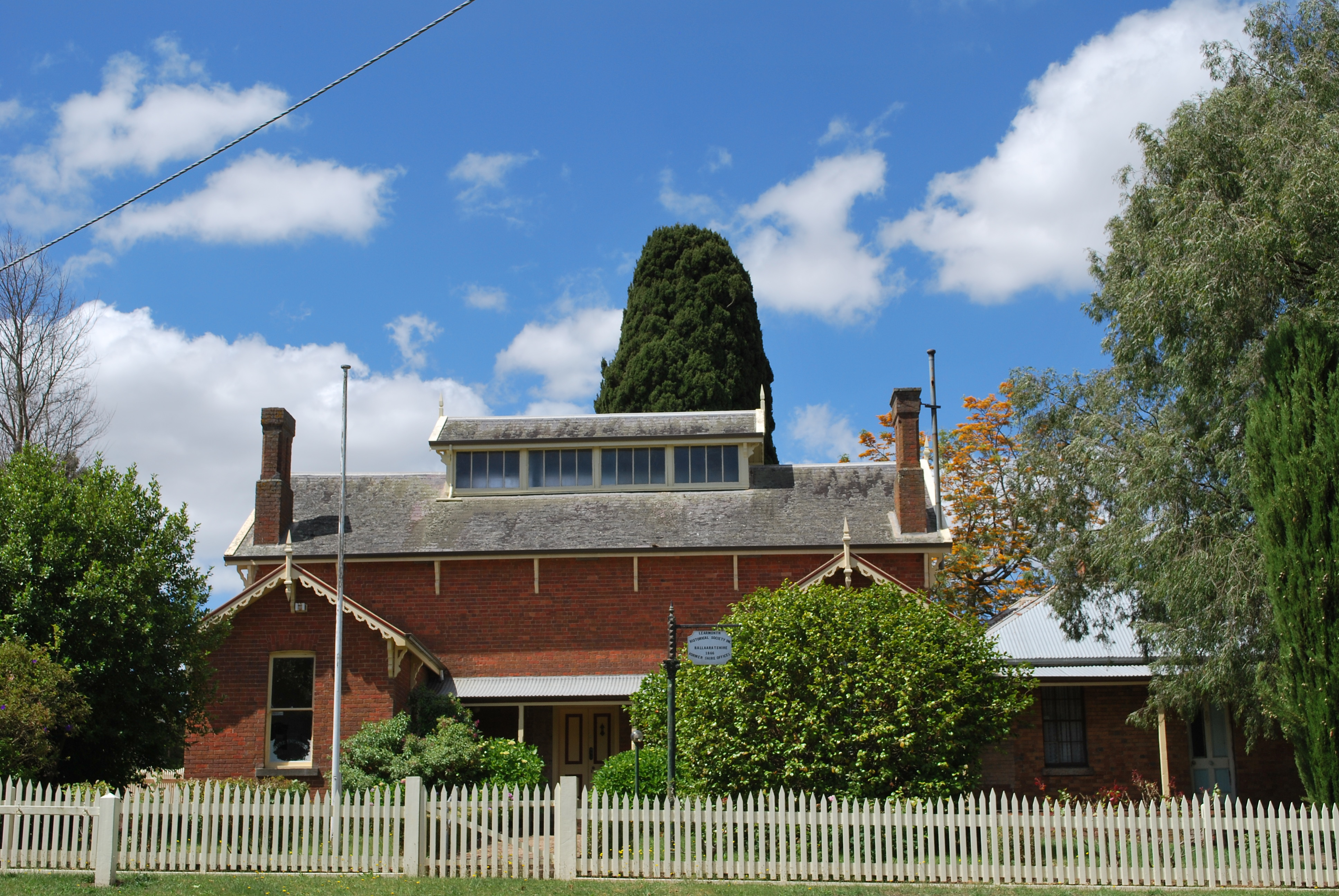 Former offices of the Shire of Ballaarat at Learmonth, Victoria, now home to the Historical Society